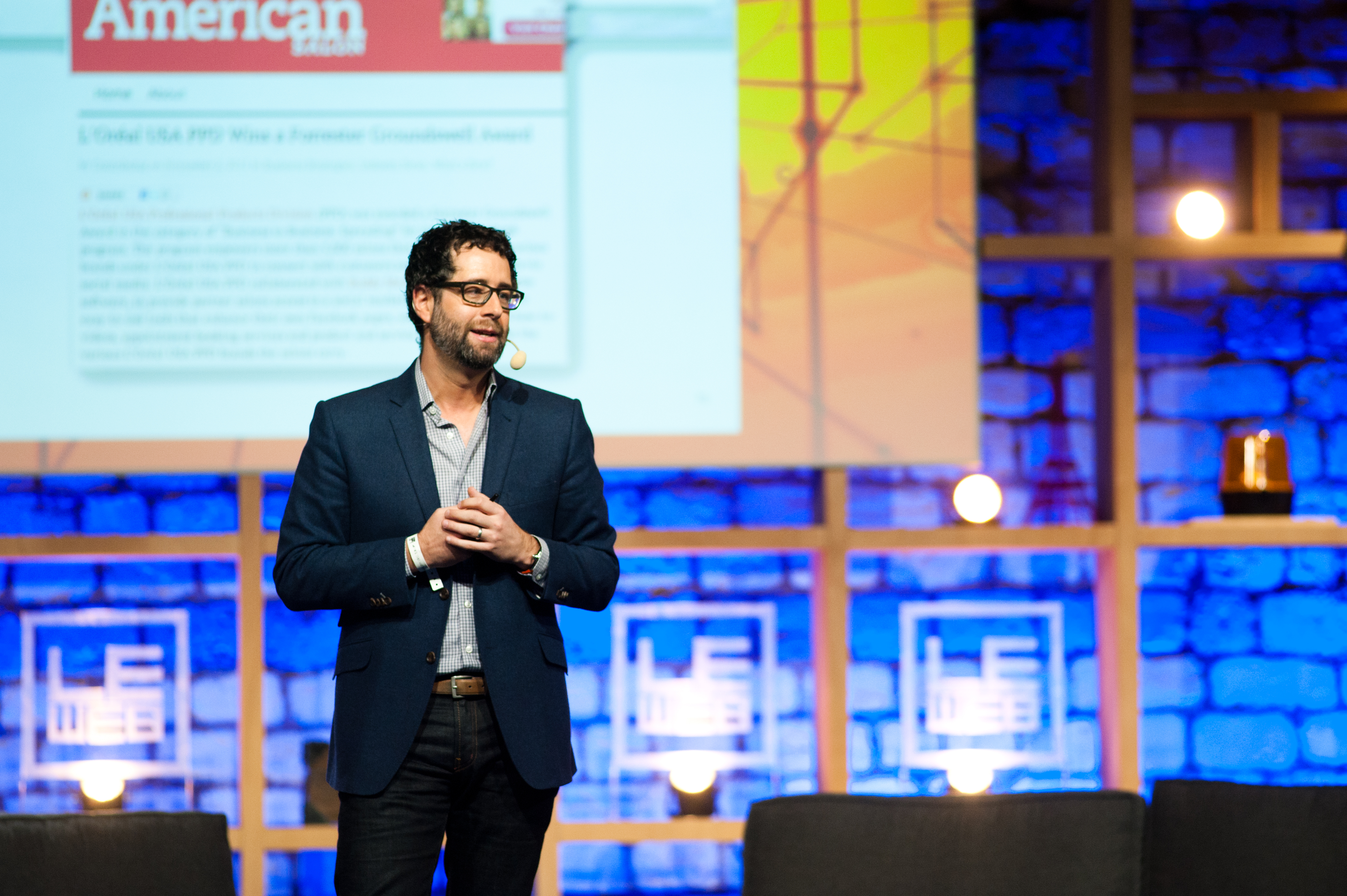 Photos by @Kmeron for LeWeb11 Conference @ Les Docks -Paris